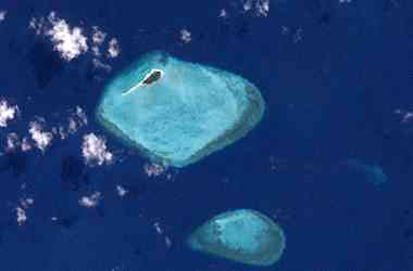 Halfway Island, center left, with surounding reef and Kodnasem Reef, bottom. Torres Strait Islands, Queensland, Australia.